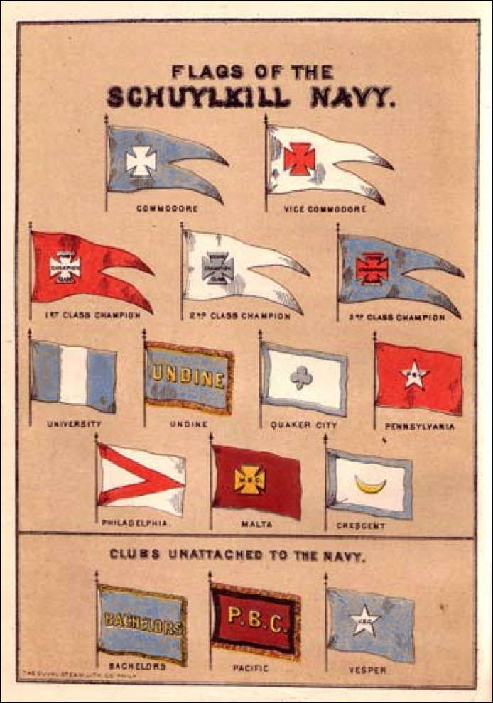 Flags of the Schuylkill Navy 1972 [added blue hue]